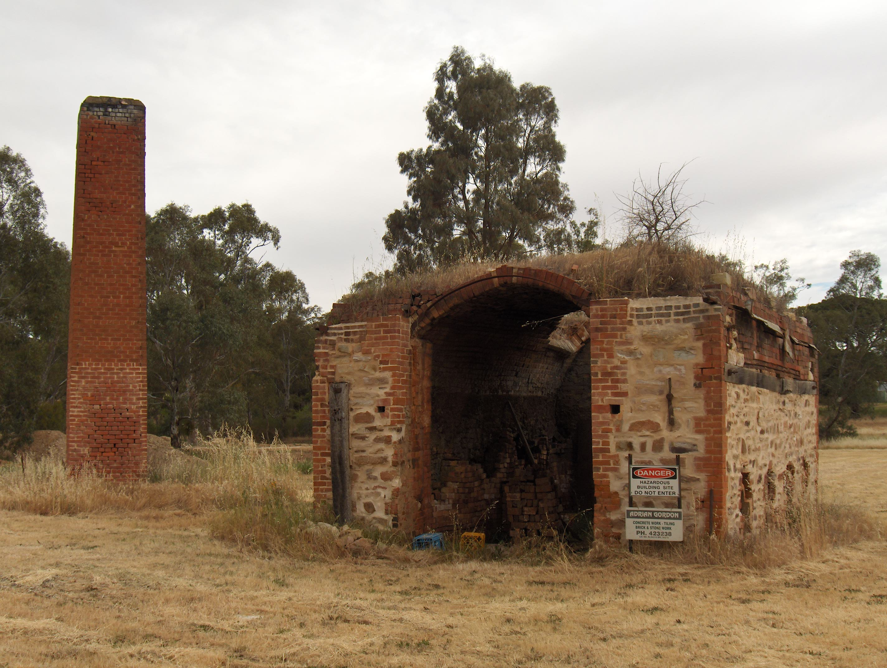 Former Creasy Brick Kiln, Armagh, South Australia